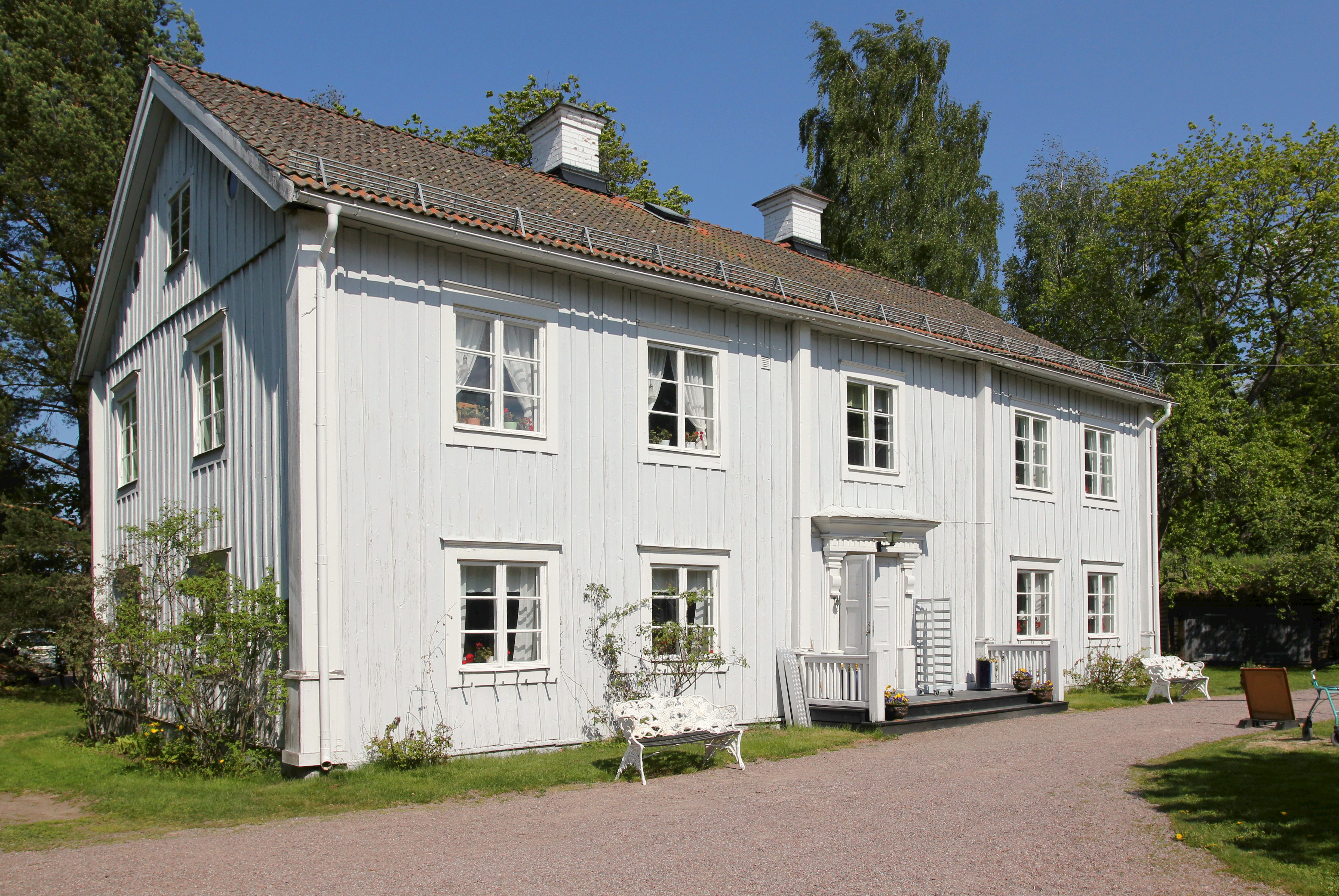 Tolvmansgården, Avesta, Sweden